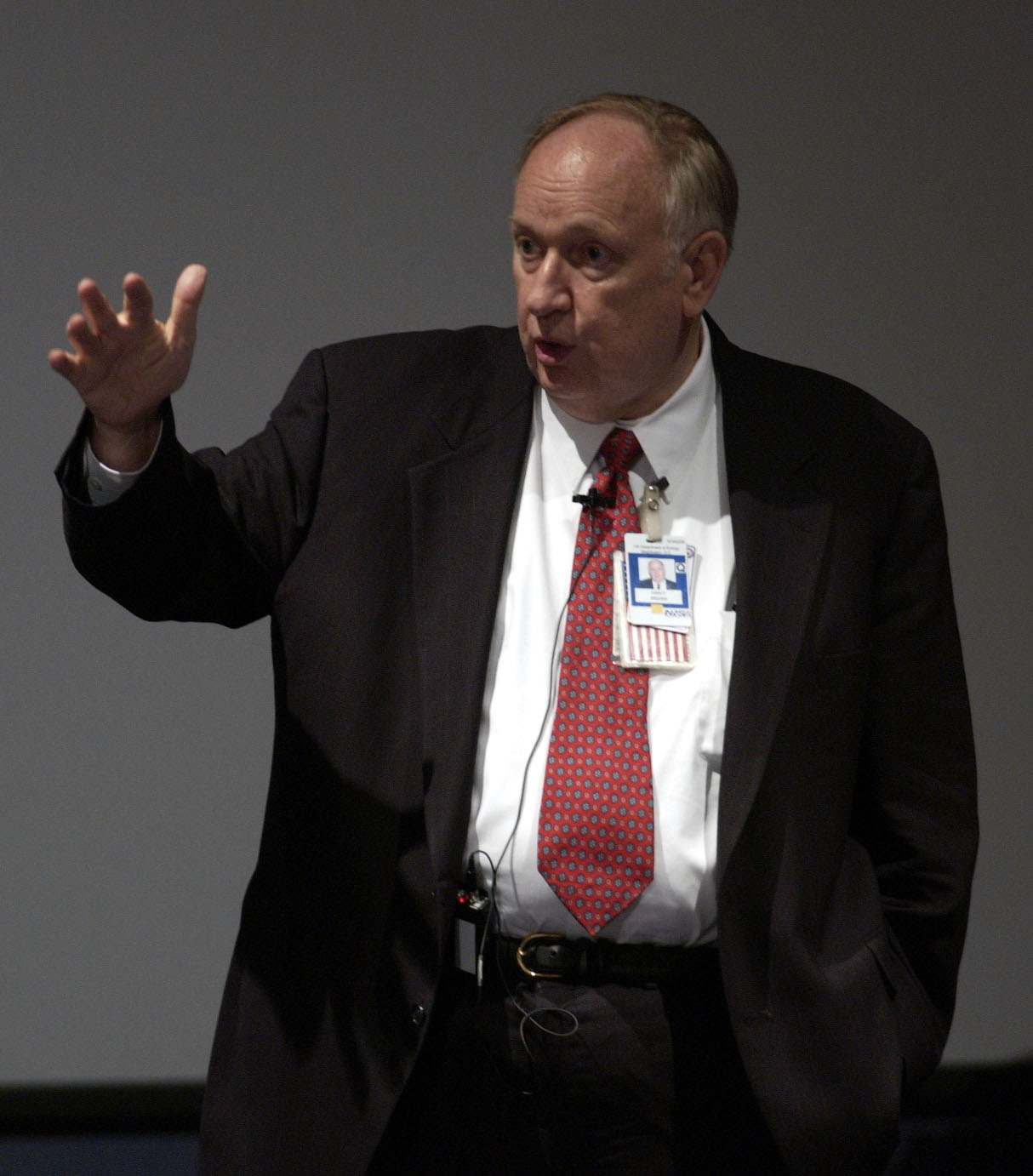 photograph of Linton Brooks, former Under Secretary of Energy for Nuclear Security/Administrator of the National Nuclear Security Administration (NNSA)